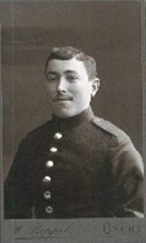 Photograph of a soldier by W. Boppel, Gmünd